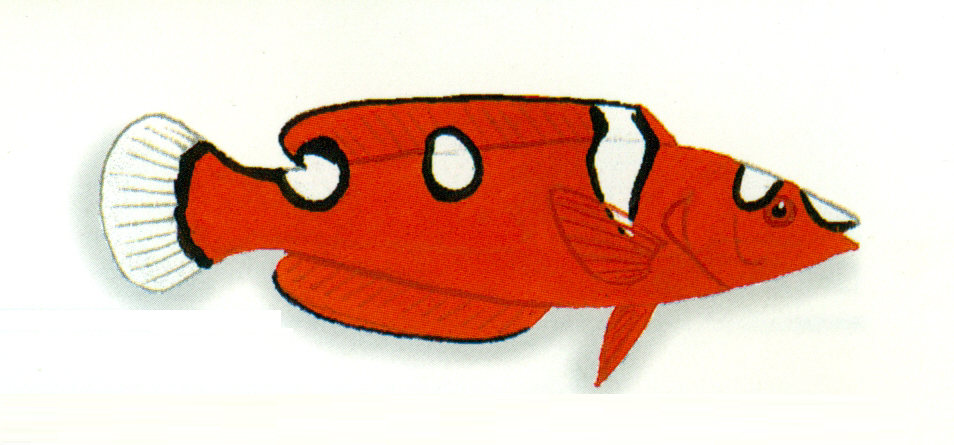 Coris_formosa-juvenile